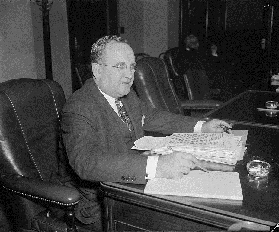 Thad H. Brown, member of the Federal Communications Commission poses for a formal portrait in Washington, D.C. - Harris-Ewing used mistaken middle initial.